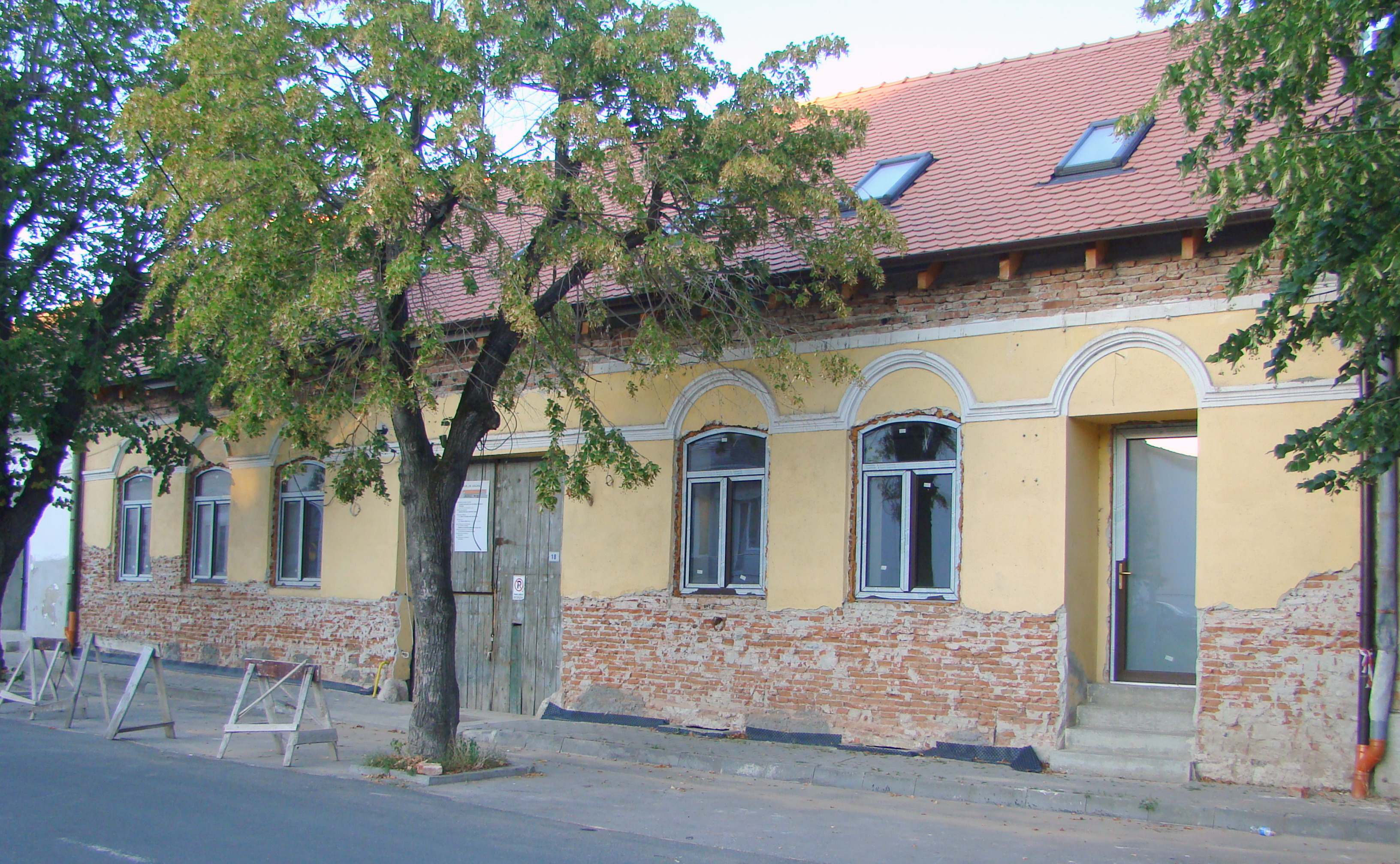 House, historic monument, Trandafirilor street, number 18, Alba Iulia, Alba county, Romania